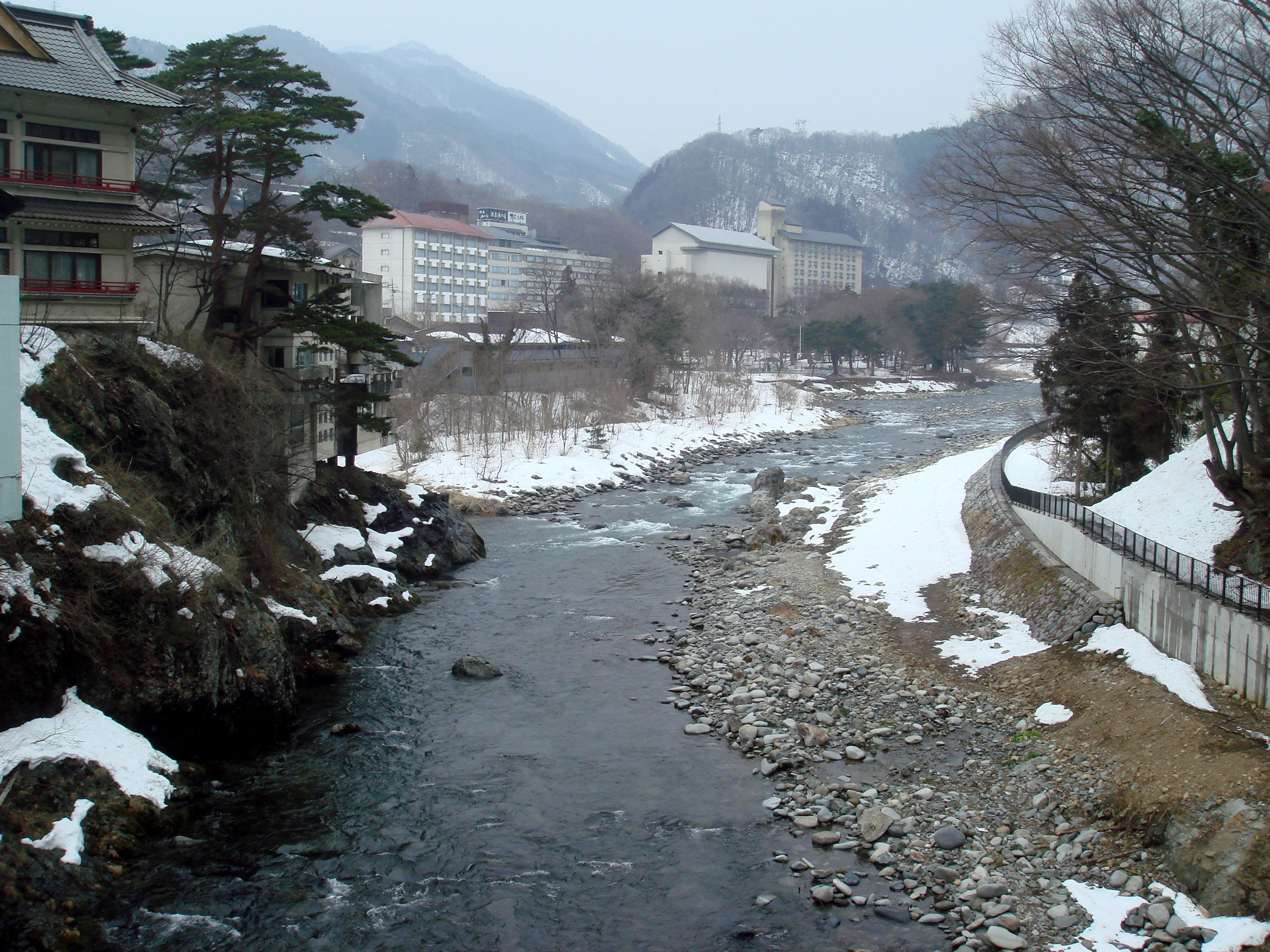 Minakami, Japan.